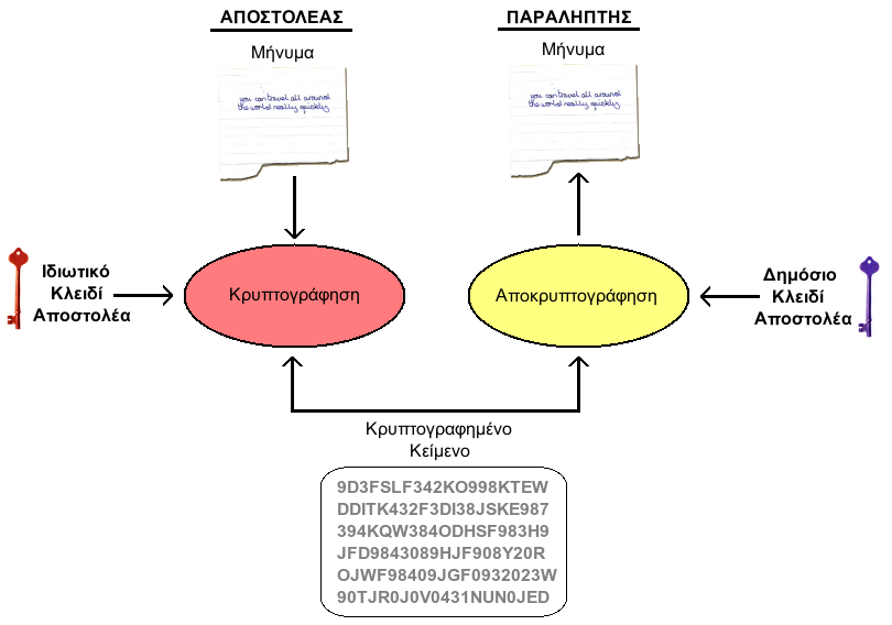 Public Key Cryptography - Authentication